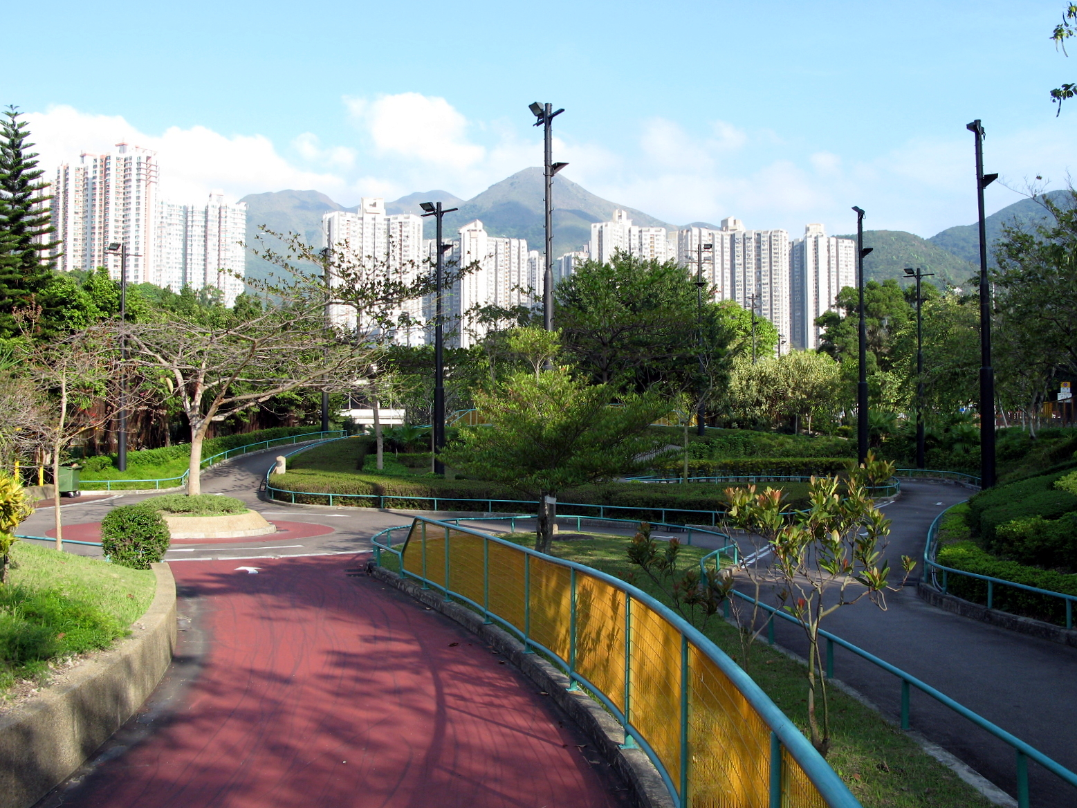 小瀝源路遊樂場 歷奇單車場 Siu Lek Yuen Road Playground Adventure Cycling Area